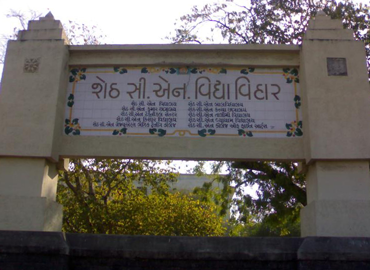 Sheth C.N Vidyalaya Entrance